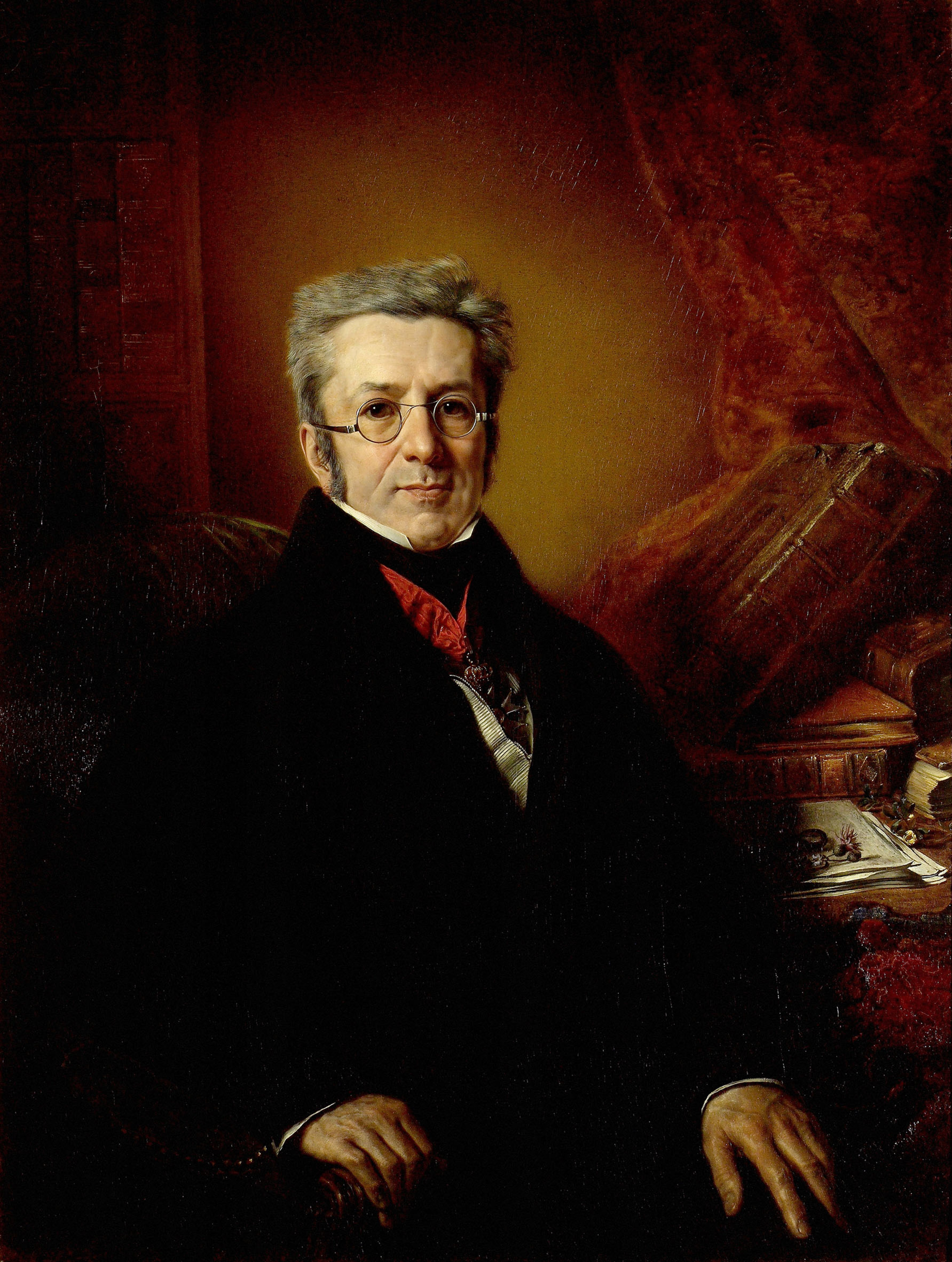 Augustin-Pyramus de Candolle (1778-1841), botaniste genevois, professeur à l'Académie, recteur de 1830 à 1832